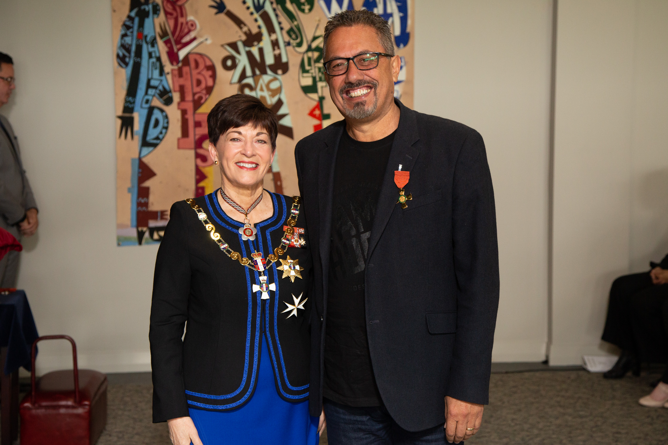 Mike King, after his investiture as ONZM, for services to mental health awareness and suicide prevention, by the governor-general, Dame Patsy Reddy, at Government House, Auckland, on 4 September 2019.